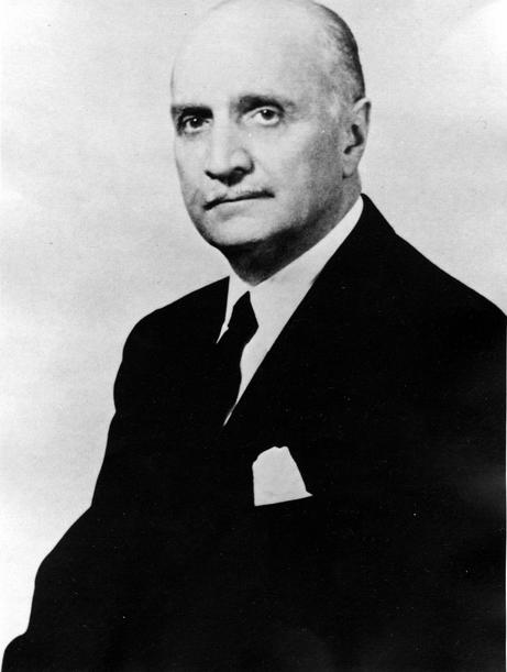 Loy W. Henderson (1892-06-28 – 1986-03-24) was a United States Foreign Service Officer and diplomat.